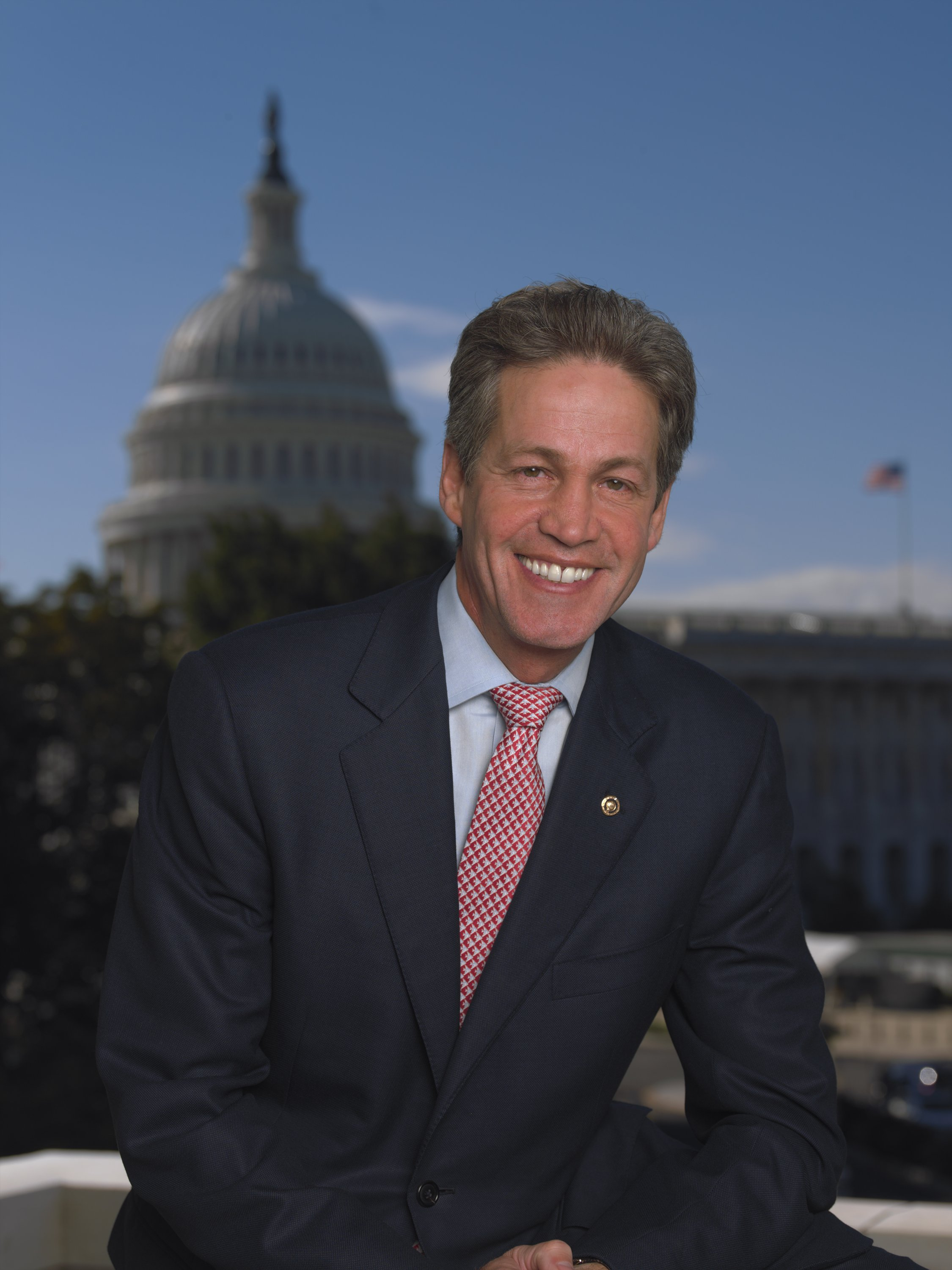 Norm Coleman, Senator from Minnesota.